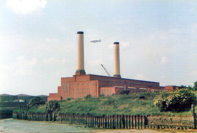 Blackwall Power Station This picture was taken from TQ392811 which was where I was working at the time. The Financial Times building now occupies the power station site (more or less). This area has changed almost beyond recognition over the past 20 years